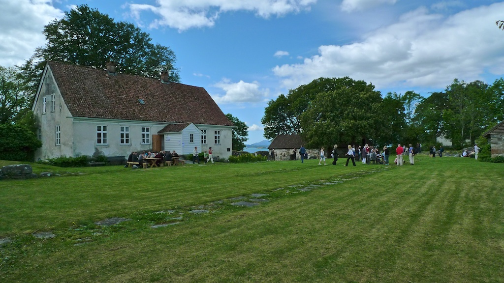 Photo of Halsnøy Abbey